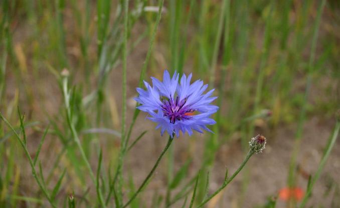 Centaurea cyanus: Flower.